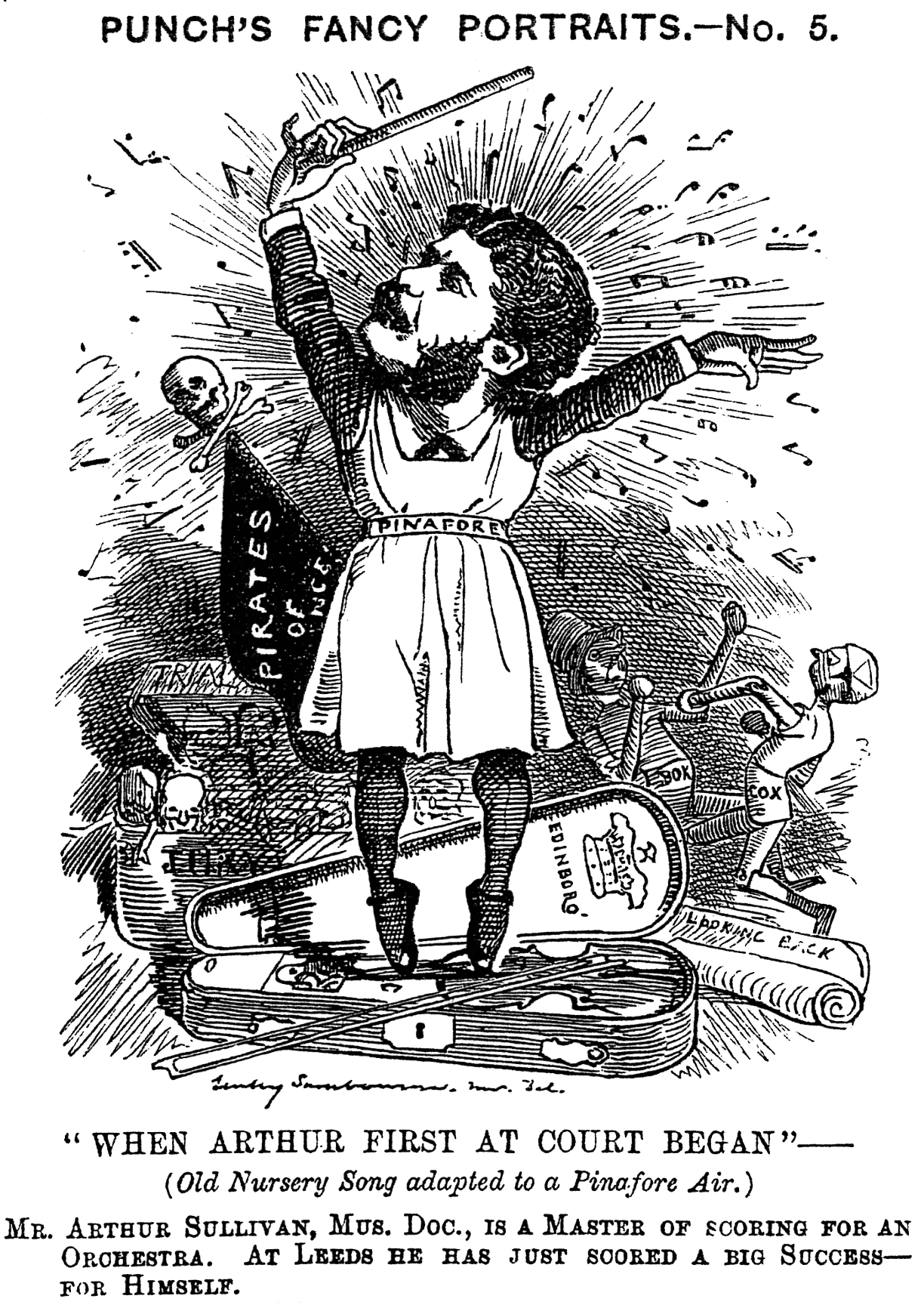 Cartoon from Punch. It was printed with the following short article: "A HUMOROUS KNIGHT." ["It is reported that after the Leeds Festival Dr. Sullivan will be knighted." Having read this in a column of gossip, a be-nighted Contributor, who has "the Judge's Song" on the brain, suggests the following verse, adapted to probabilities.] As a boy I had such a musical bump, And its size so struck Mr. HELMORE, That he said, "Though you sing those songs like a trump, You shall write some yourself that will sell more." So I packed off to Leipsic, without looking back, And returned in such classical fury, That I sat down with HANDEL and HAYDN and BACH,— And turned out "Trial by Jury." But W.S.G. he jumped for joy As he said, "Though the job dismay you, Send Exeter Hall to the deuce, my boy; It's the haul with me that'll pay you." And we hauled so well, mid jeers and taunts, That we've settled, spite all temptations, To stick to our Sisters and our Cousins and our Aunts,— And continue our pleasant relations. Yet I know a big Duke, and I've written for Leeds, And I think (I don't wish to be snarly), If honour's poured out on a chap for his deeds, I'm as good—come, as MONCKTON or CHARLEY! So the next "first night" and the Opéra C., Let's hope, if you're able to find him, You'll cry from the pit, "There's W. S. G. In the stalls,—with a KNIGHT behind him!'"